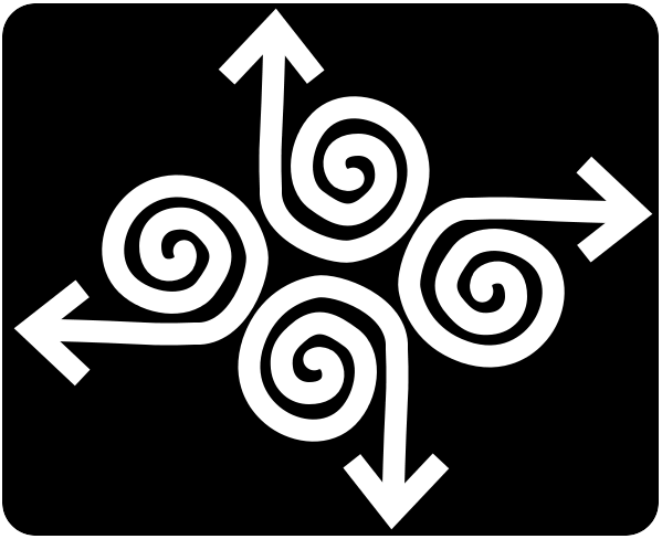 Logo of the FCAATSI (Formerly Federal Coucil for Aboriginal Advancement (FCAA), later National Aboriginal and Islander Liberation Movement (NAILM)). Recreated based on version given by National Museum Australia.